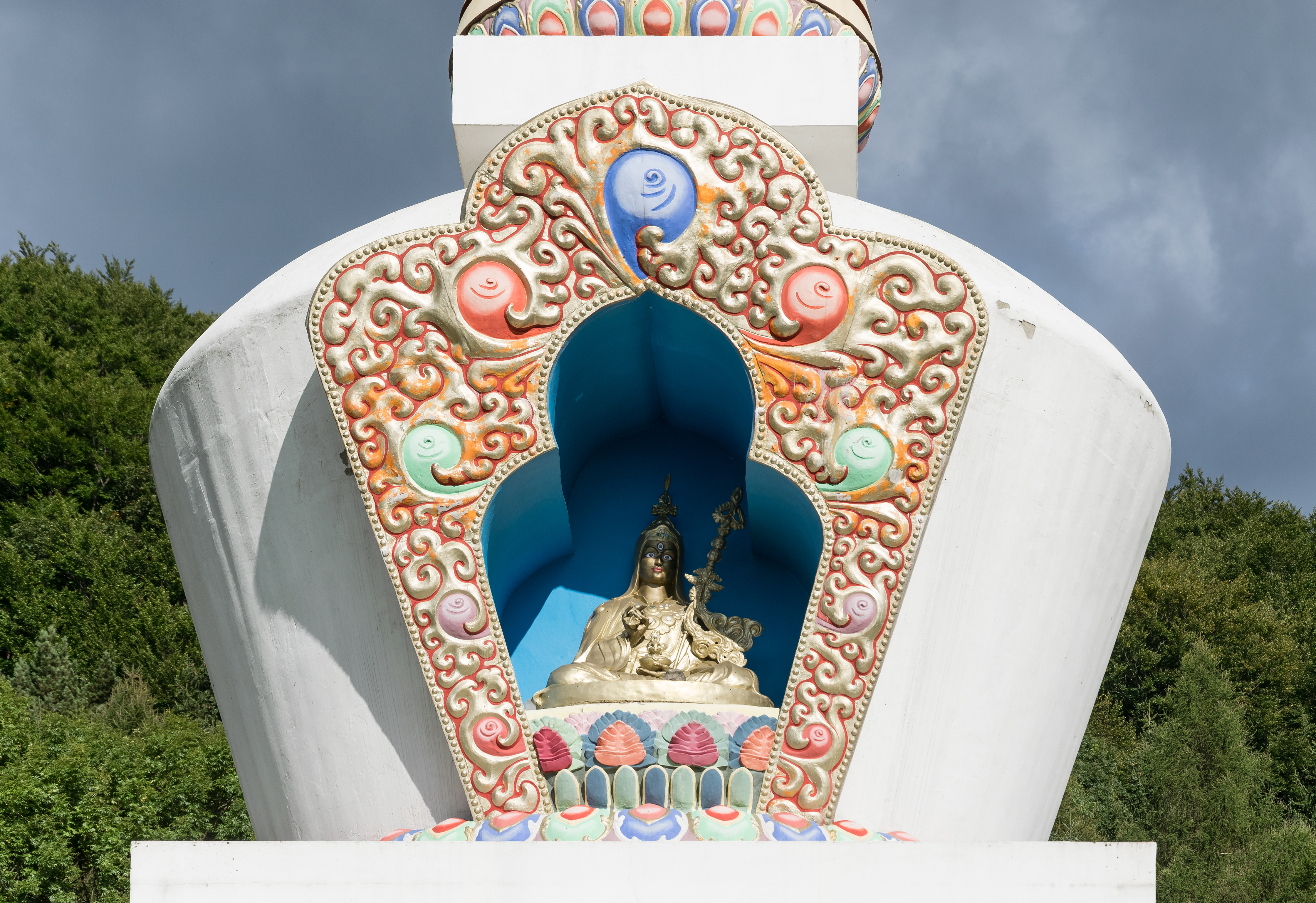 Stupa in Gompa Drophan Ling in Darnków, Padmasambhava